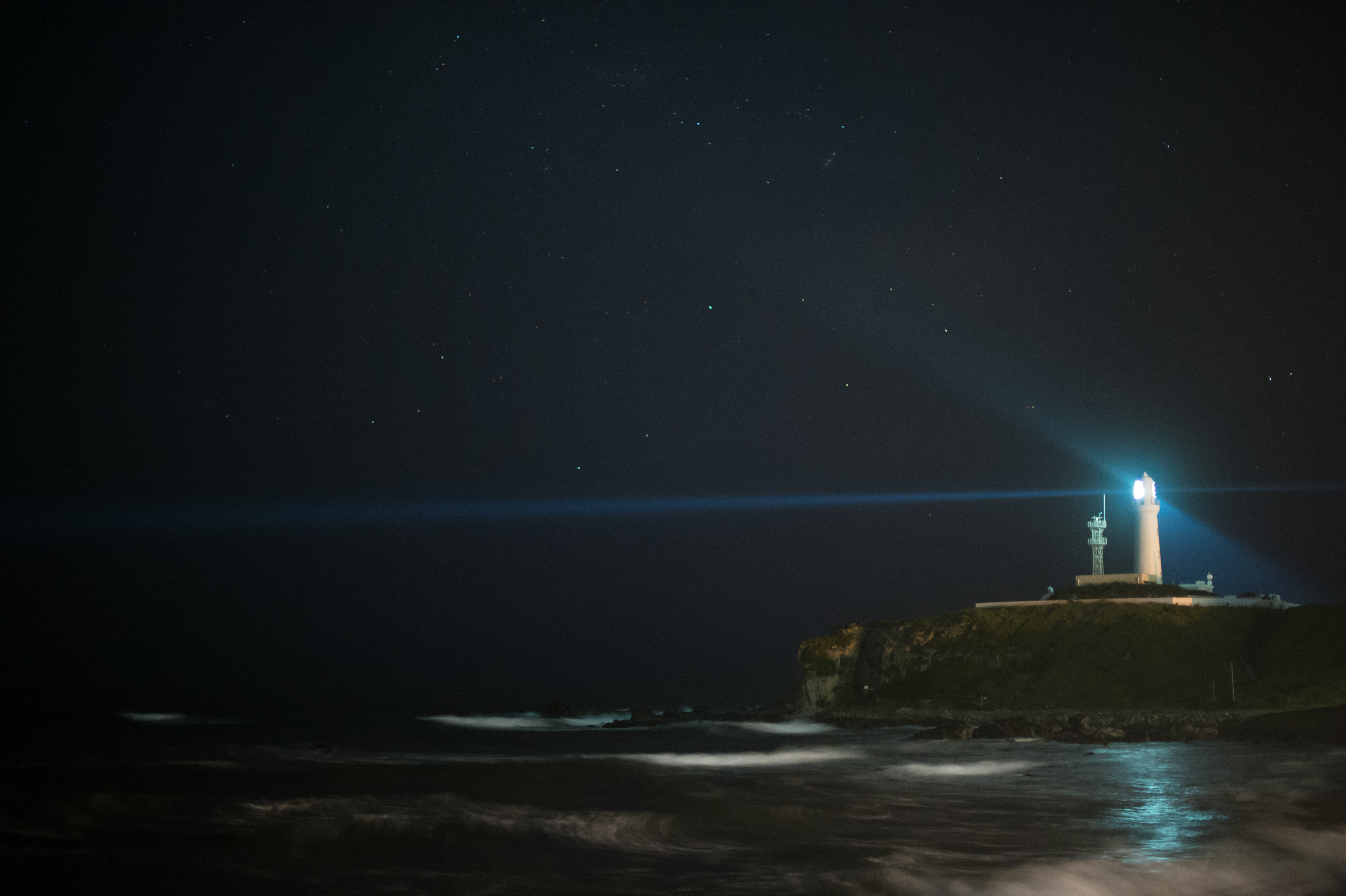 Actually this is the first time a lighthouse in action in person! I was really impressed what I've saw. 灯台が光を発するシーンを初めて直に見ました。光の帯がさーっと移動する様は感動的でした。 [ Nikon D4, Nikon AF-S NIKKOR 50mm f/1.4G, f/1.4, 1.3sec, ISO4000, Lightroom 5 ]